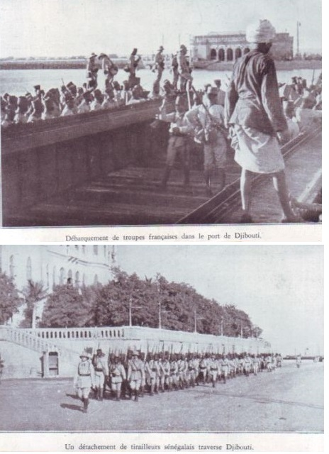 Landing of additional French troops in Djibouti in 1935 during a period of international tension related to Italy's threat to invade Ethiopia. The bottom picture shows tirailleurs sénégalais (generic name for battalions made up of Senegalese and other West African natives) marching alongside the Palais du Gouvernement. Photos published in the French weekly L'Illustration in 1935